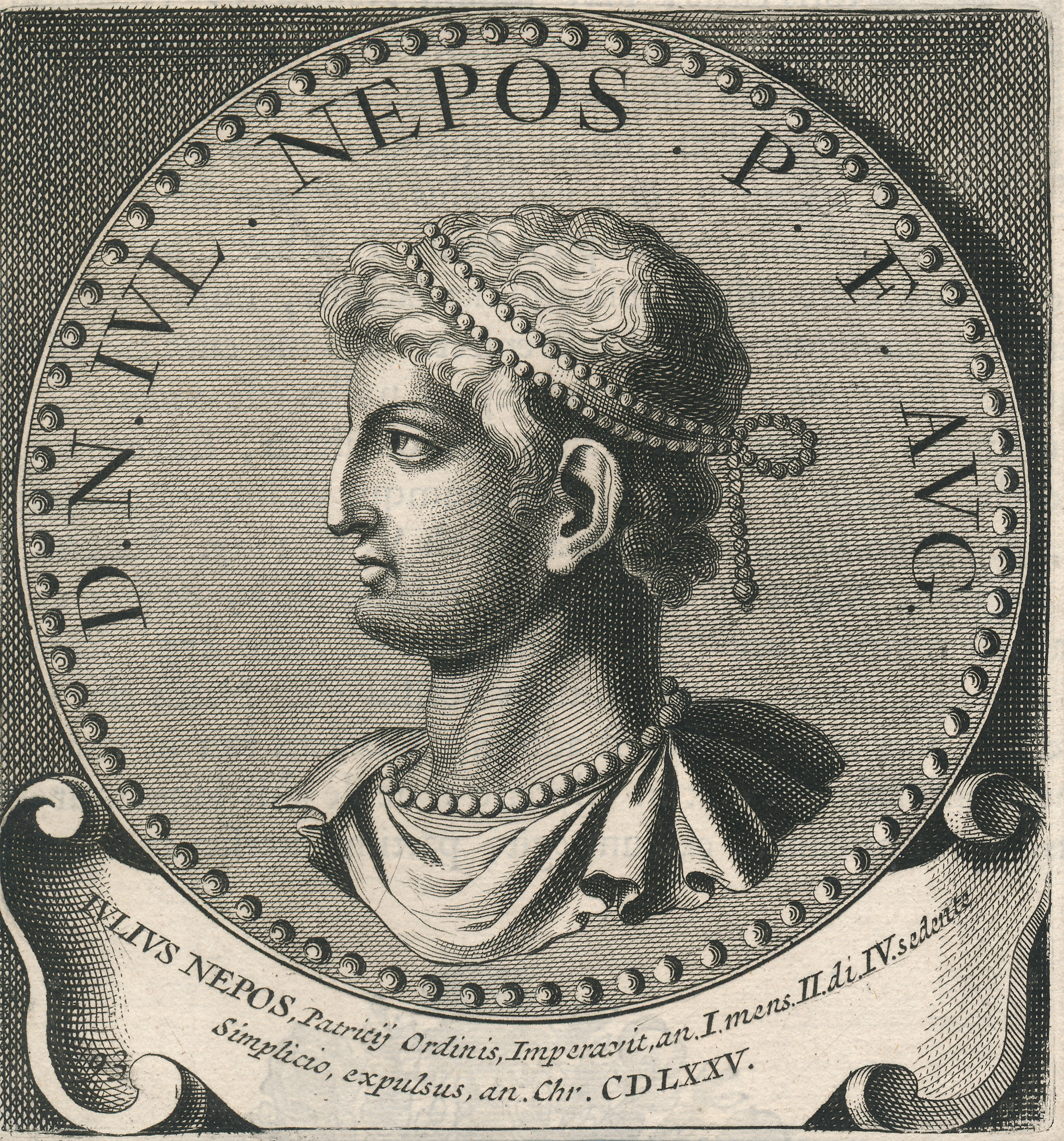 engraving in medallion of Julius Nepos, last emperor of the western Roman empire 474-475